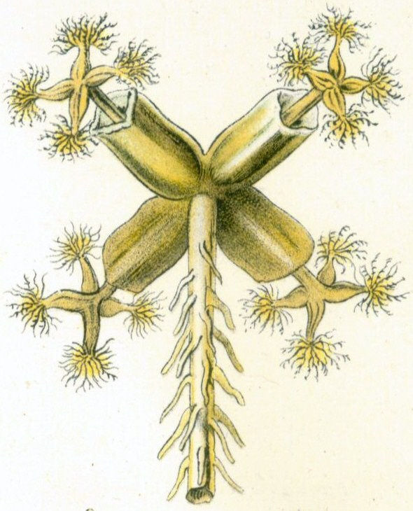 Detail of liverwort's sexual reproduction: Lunularia cruciata's archegonial head with sporophytes. Cropped from image Haeckel Hepaticae.jpg